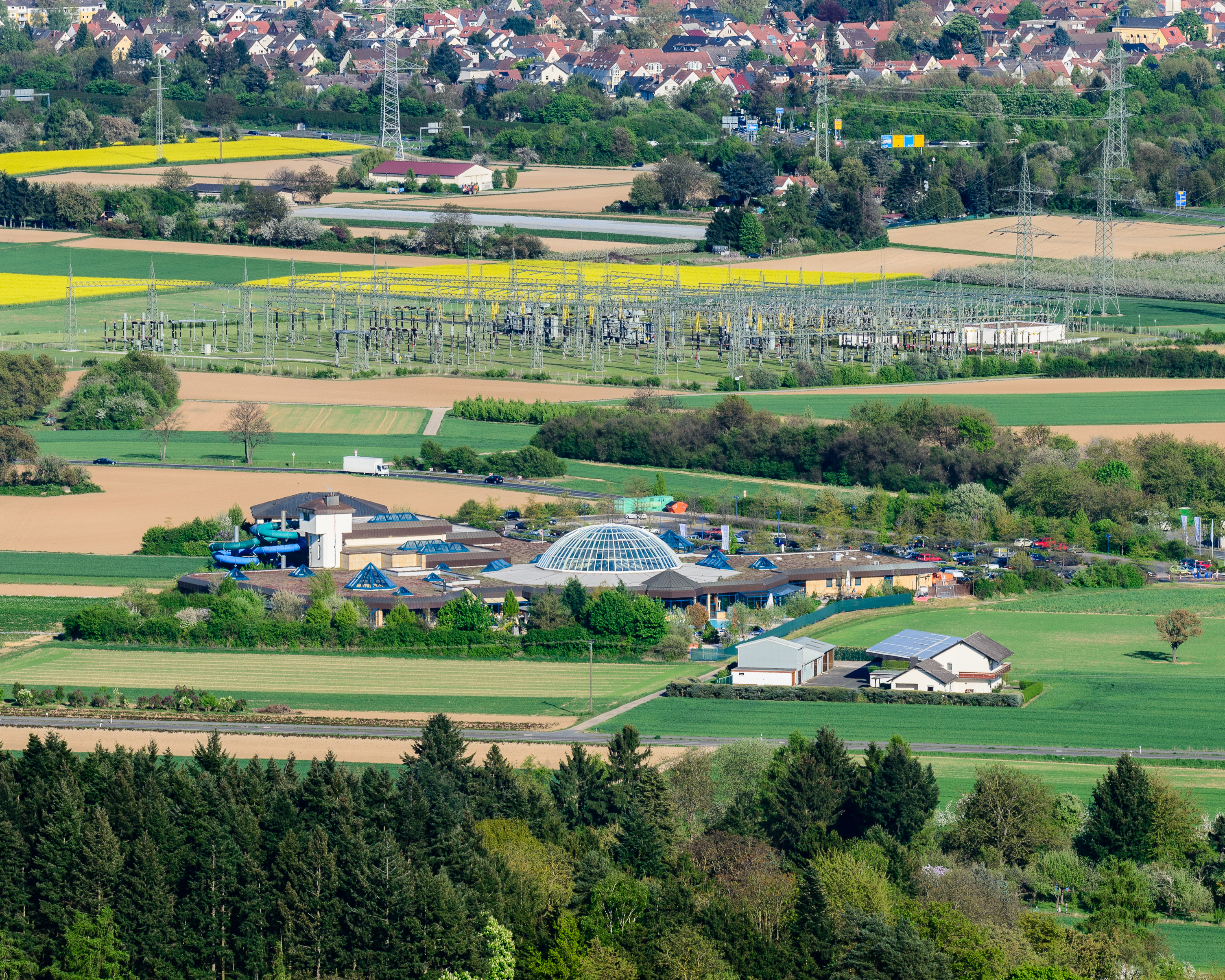 Rhein-Main Therme in Hofheim and Kriftel substation, Hesse, Germany.